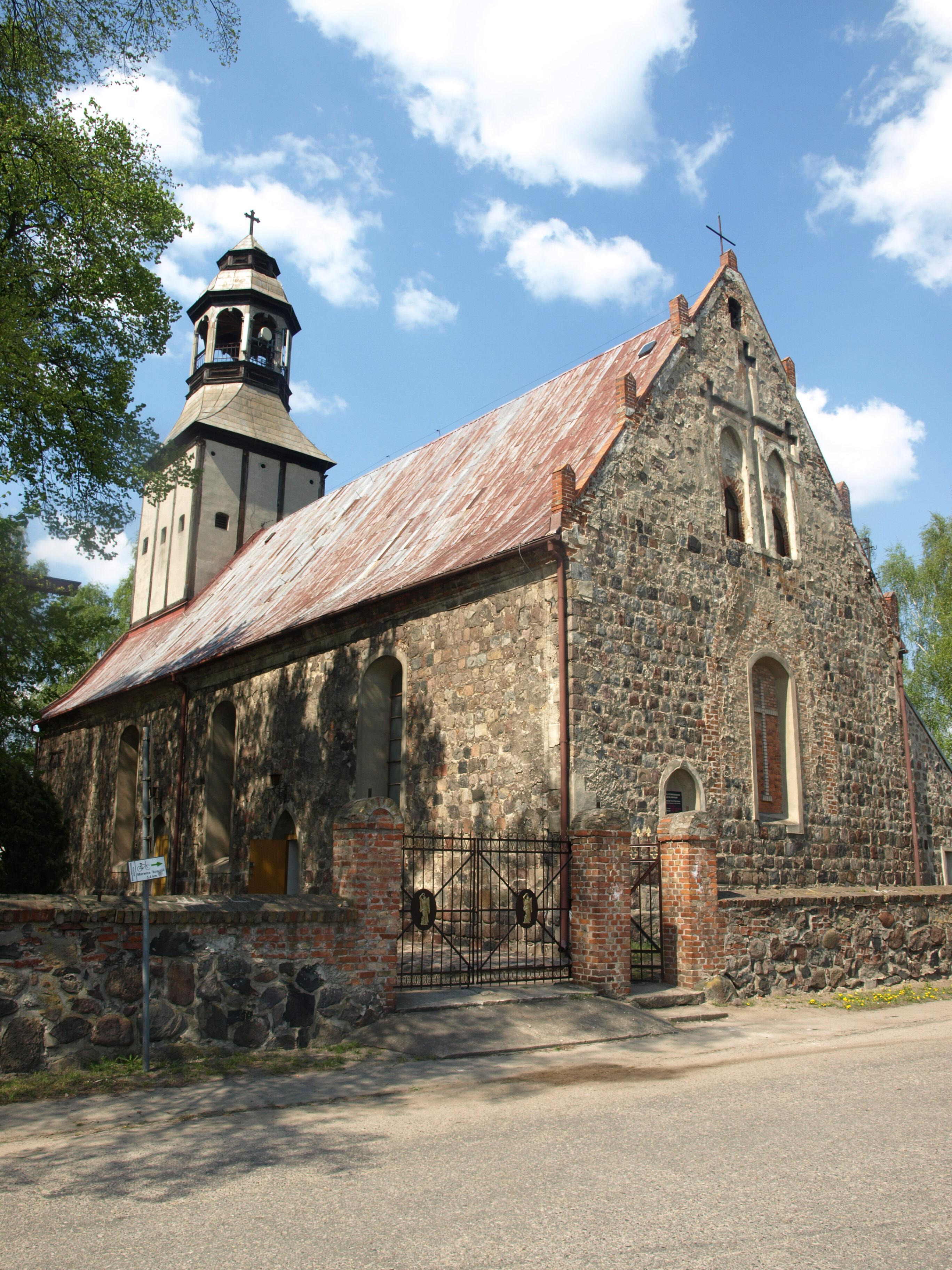 Sacred Heart church of Widuchowa in West Pomeranian Voivodeship, Poland